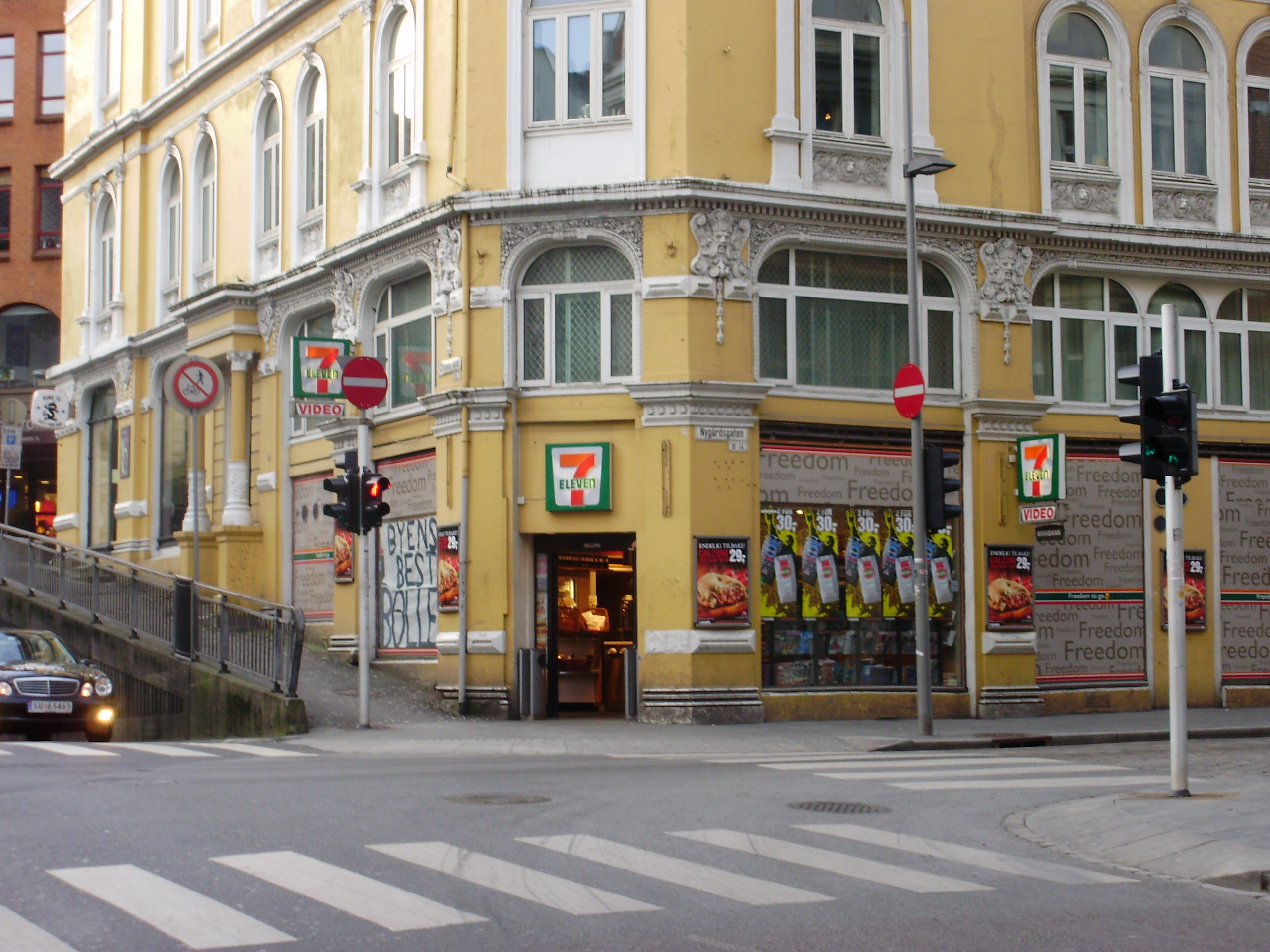 7 eleven store in Bergen, Norway.